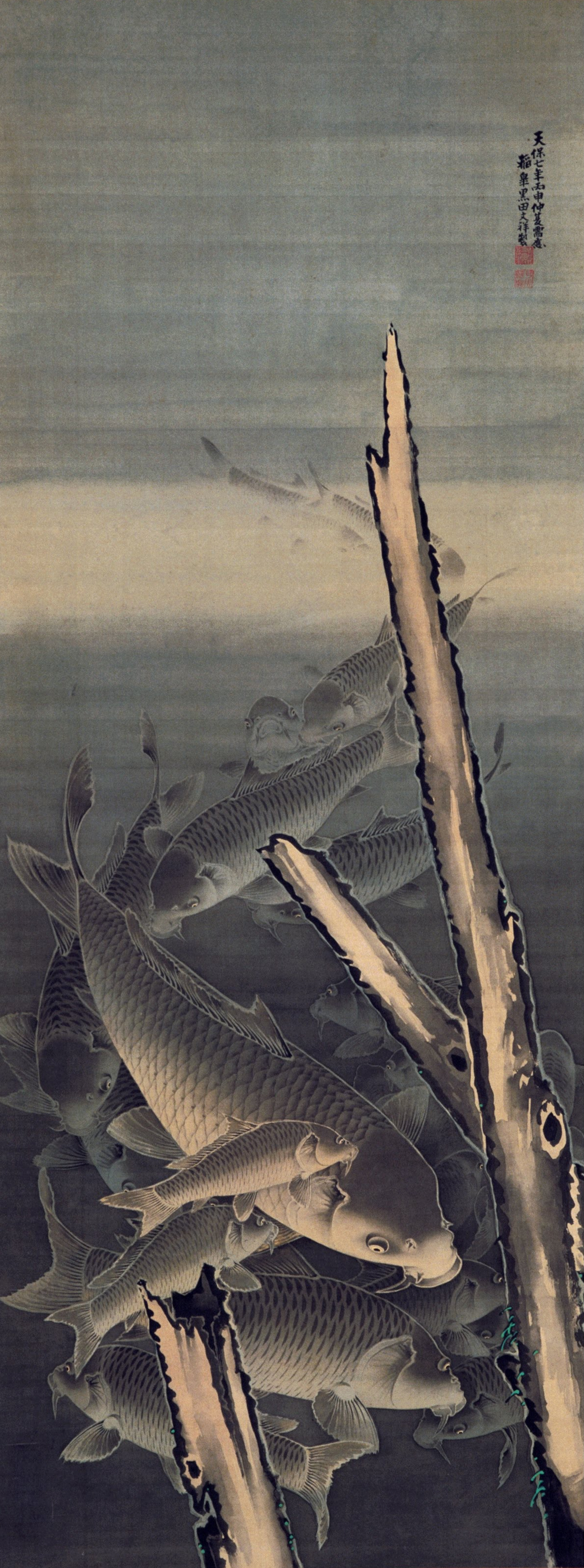 Shoal of Carp by Kuroda Tōkō, Tottori Prefectural Museum, Tottori, Tottori, Japan